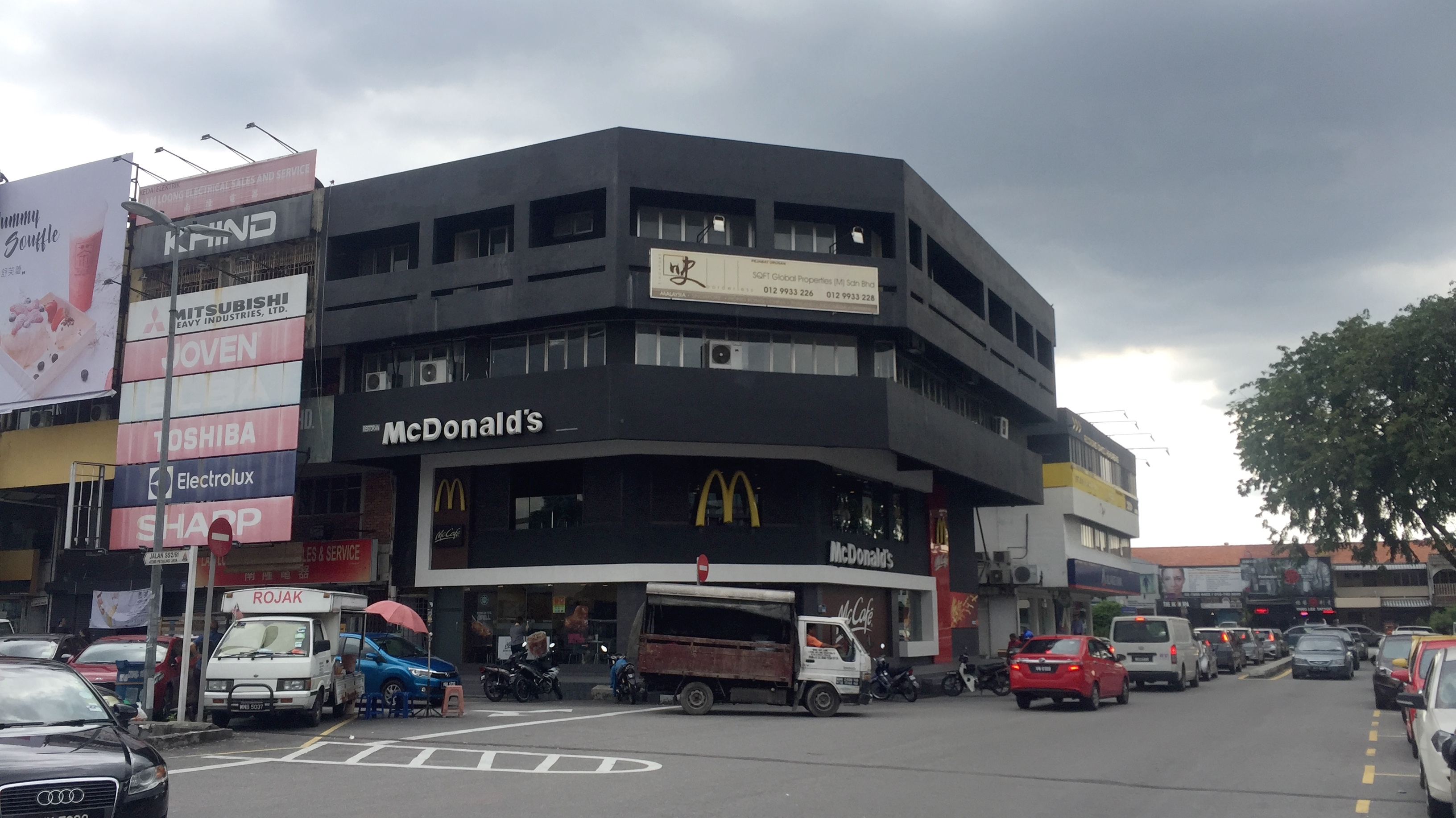 Set up in the 1980s, this McDonald's outlet is the only fast food service franchise in the SS2 commercial zone, located next to one of the entry points into the area.